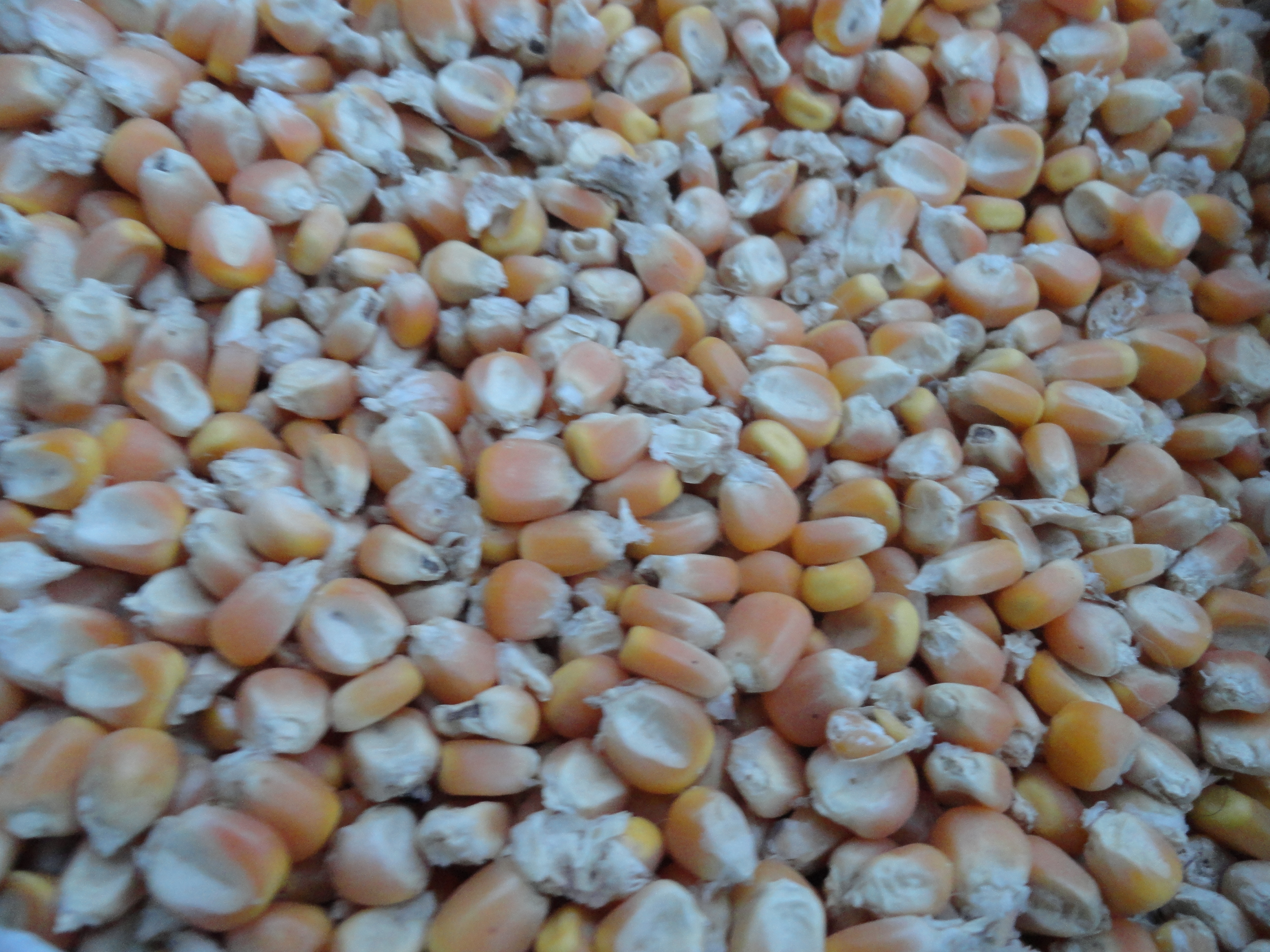 మొక్కజొన్న గింజలు